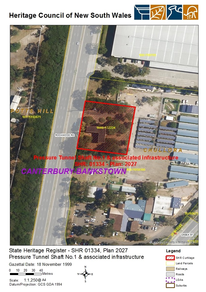 Pressure Tunnel and Shafts: SHR Plan No 2027